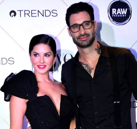 Sunny Leone & Daniel Weber graces Vogue Beauty Awards 2017.